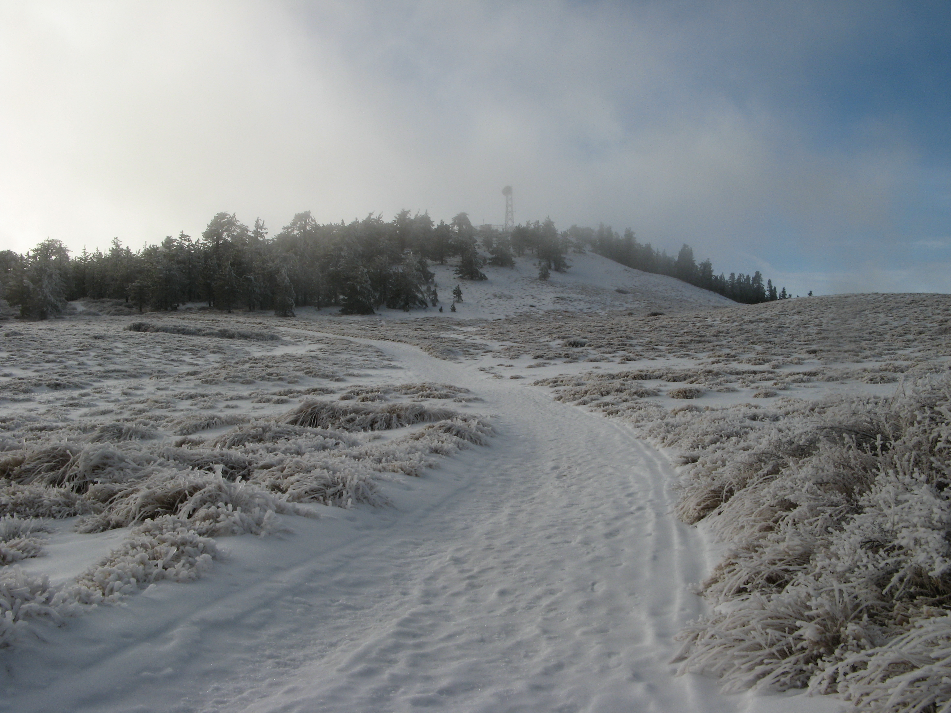 Mount Pinos after a snowstorm